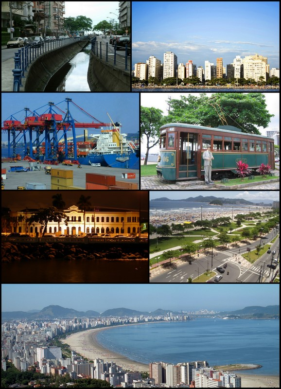 Montagem de fotos de Santos.